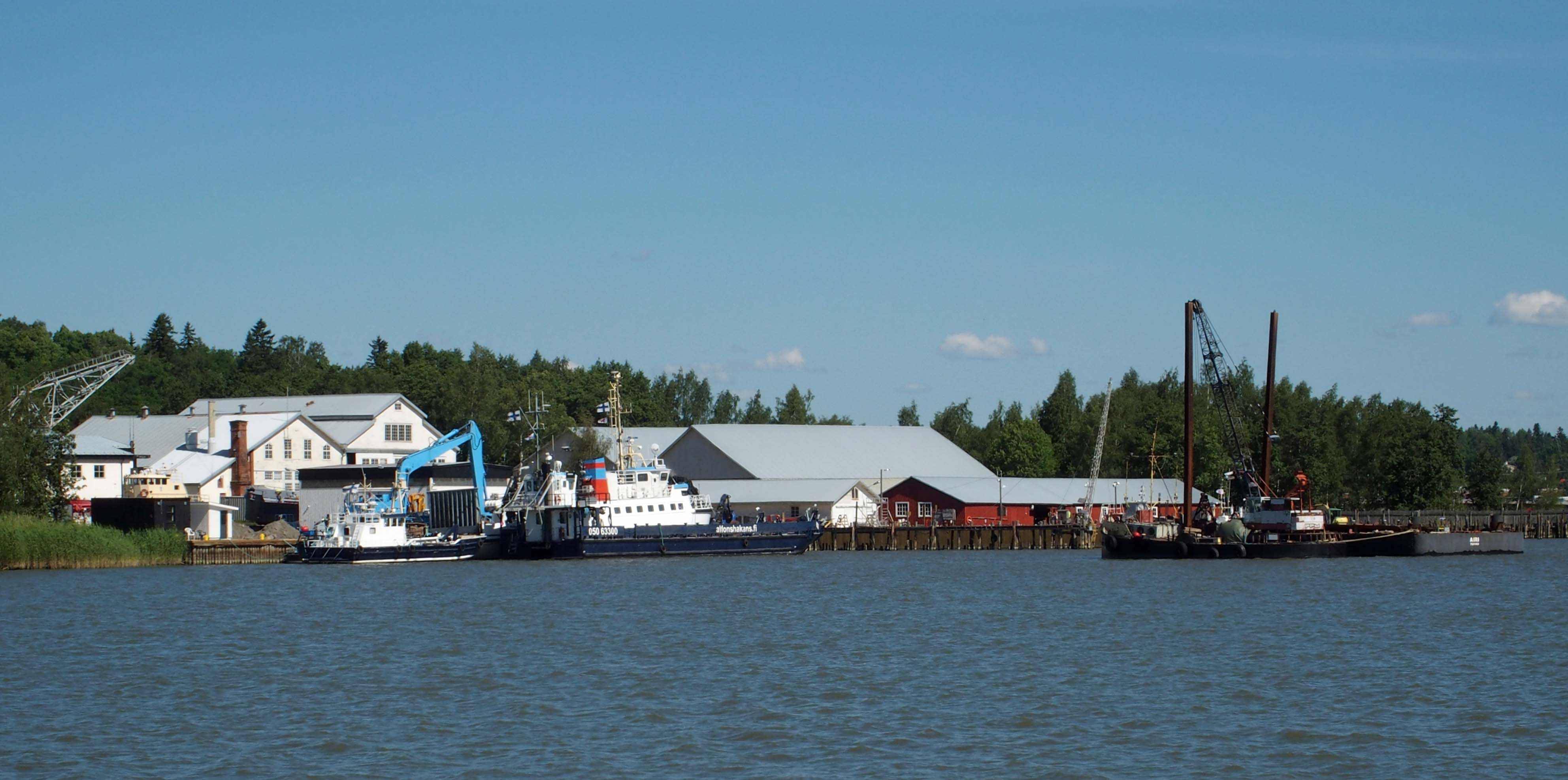 Small shipyard on Ruissalo island, Turku, Finland.